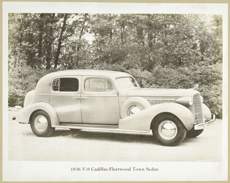 Cadillac 1936 Series 75 Fleetwood Town Sedan Digital ID: 482023 Source: Photographs of General Motors and Chrysler car and truck models, 1902 - 1938. / 1902-1938. Cadillac - Chrysler - De Soto - Dodge - LaSalle - Plymouth. Photographs - Specifications. ( more info ) Repository: The New York Public Library. Science, Industry and Business Library. General Collection Division. See more information about this image and others at NYPL Digital Gallery . Persistent URL: Rights Info: No known copyright restrictions; may be subject to third party rights (for more information, click here )